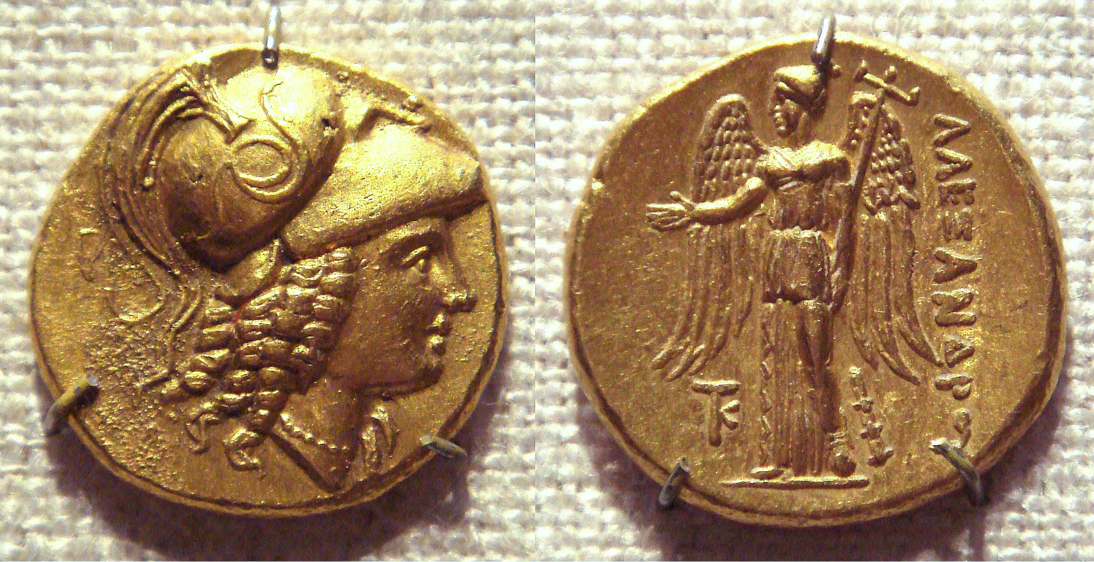 Coin of Alexander the Great, with a depiction of Athena and Nike.